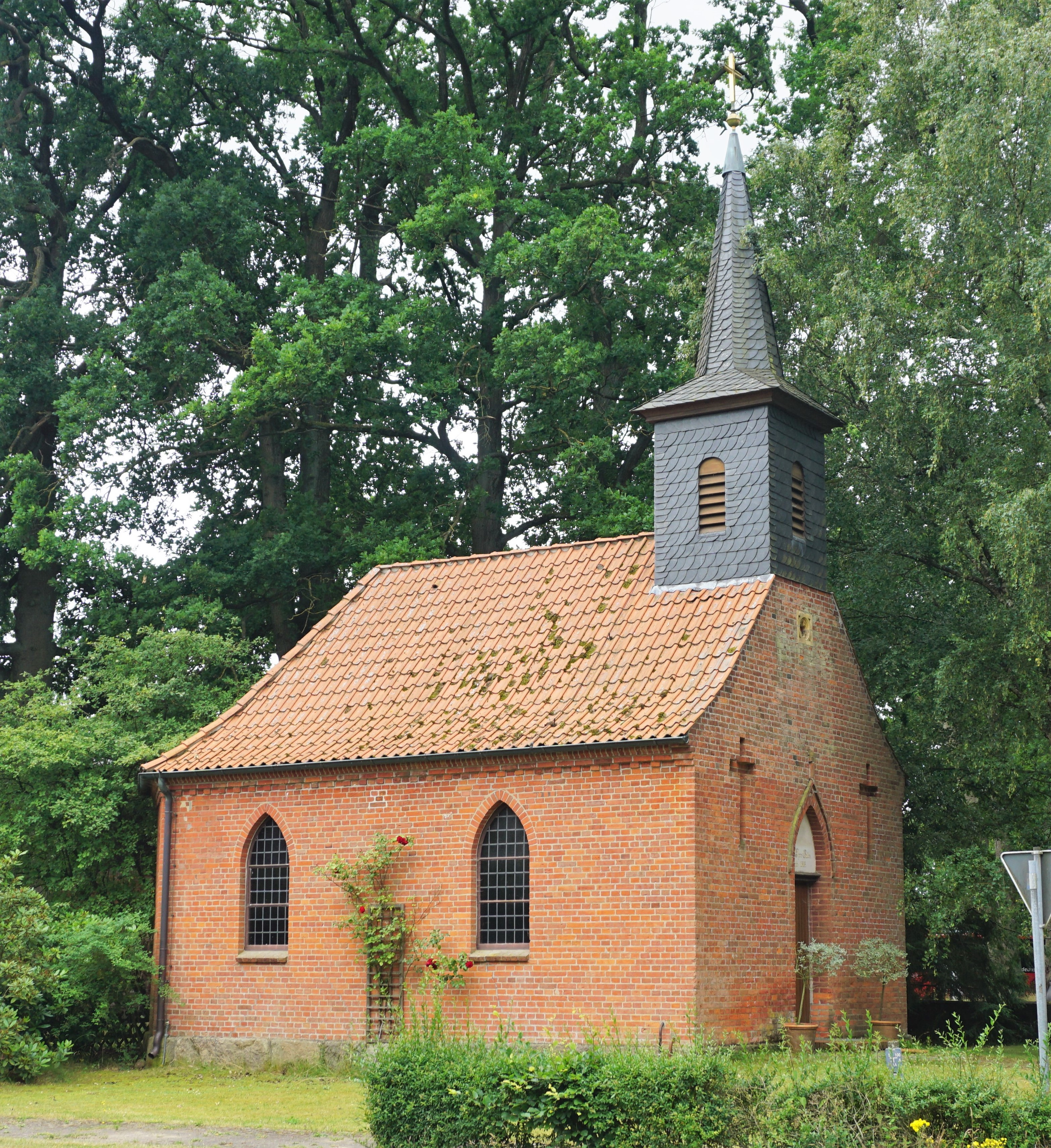 Neo-Gothic chapel in Groß Thondorf in the district of Uelzen in Lower Saxony.